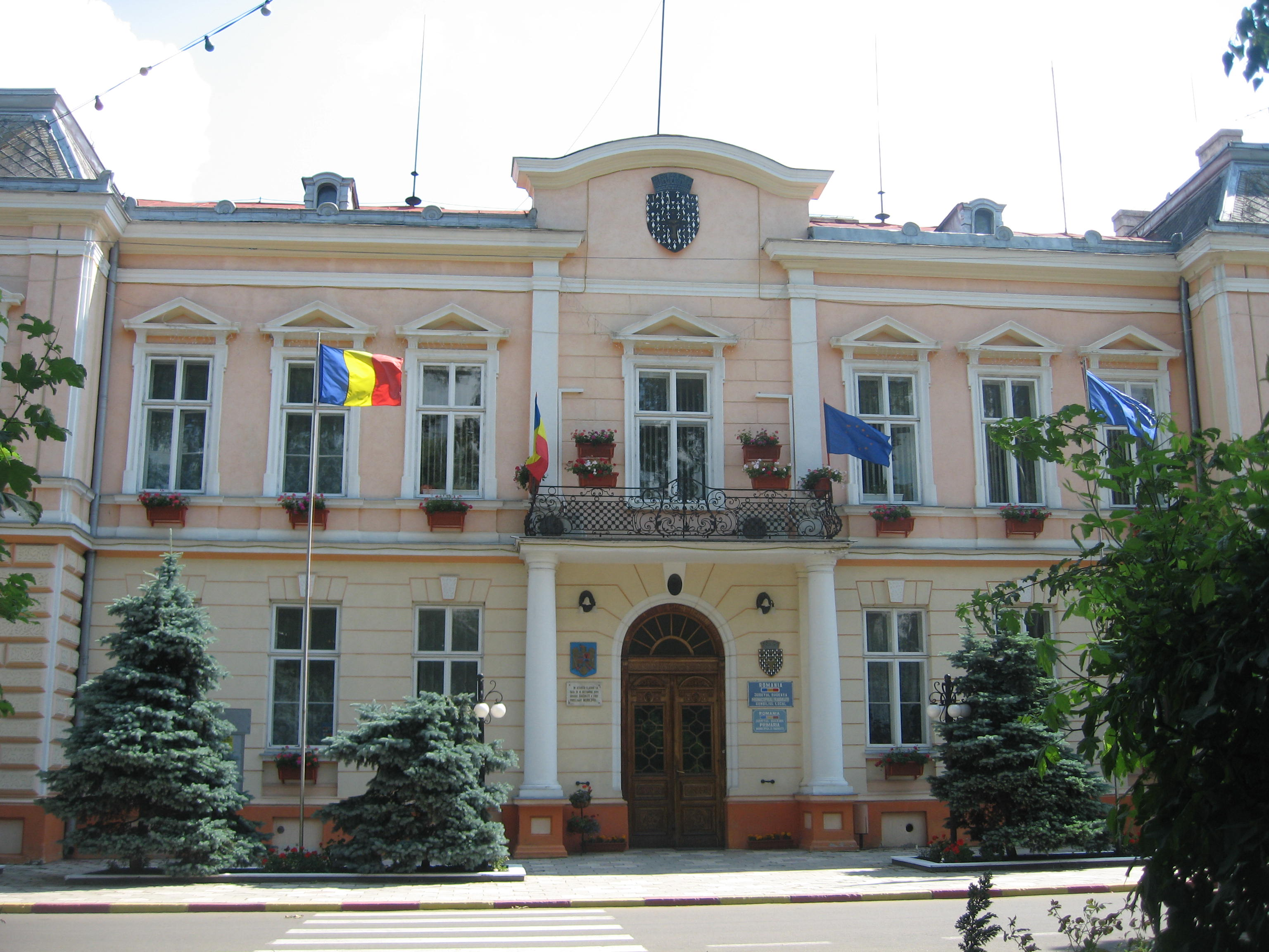 Primăria din Rădăuţi